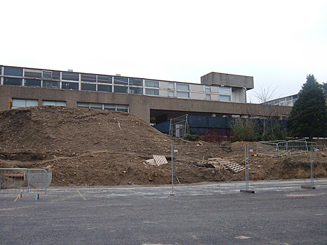 Salt Grammar School, Saltaire. This school was opened in 1963 to replace the original Victorian school in the centre of Saltaire on Victoria Road. The typical 1960's construction appears to have failed and a new school is now being built alongside. The Victorian school hasn't failed and is still being used as an educational establishment. The Victorian school can be seen here 727146. The newest can be seen here under construction 727217.